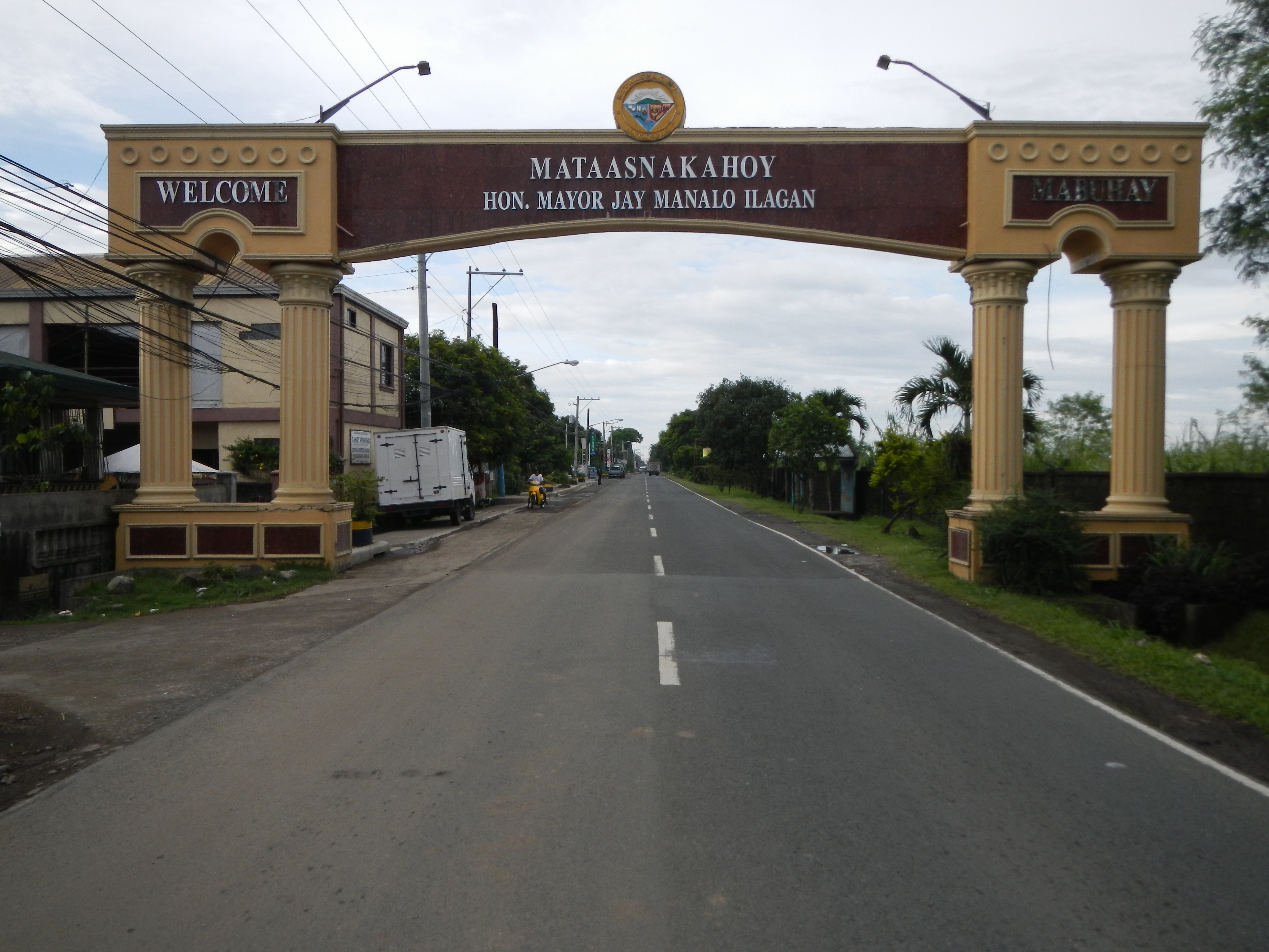 Upload Wizard photos of -- the - Centro, downtown, main road, Town Proper, Welcome Sign Monument, and Central Elementary School near the Town Hall and the Immaculate Conception Parich Parish Church of Mataasnakahoy, Mataas na Kahoy, Batangas[1] (a 4th class municipality in the Province of Batangas, Philippines; 2010 census, it has 27,177 people; created by virtue of Executive Order No. 308 signed by George Butte, acting Governor General of the Philippines on March 27, 1931, effective January 1, 1932 has 16 barangays); [2] Geographical location: Batangas, Region 4, Philippines, Asia Geographical coordinates: 13° 57' 30" North, 121° 6' 50" East. [3] Mataasnakahoy Municipal Hall Poblacion Coordinates: 13°57'37"N 121°6'52"E, covered court, plaza.